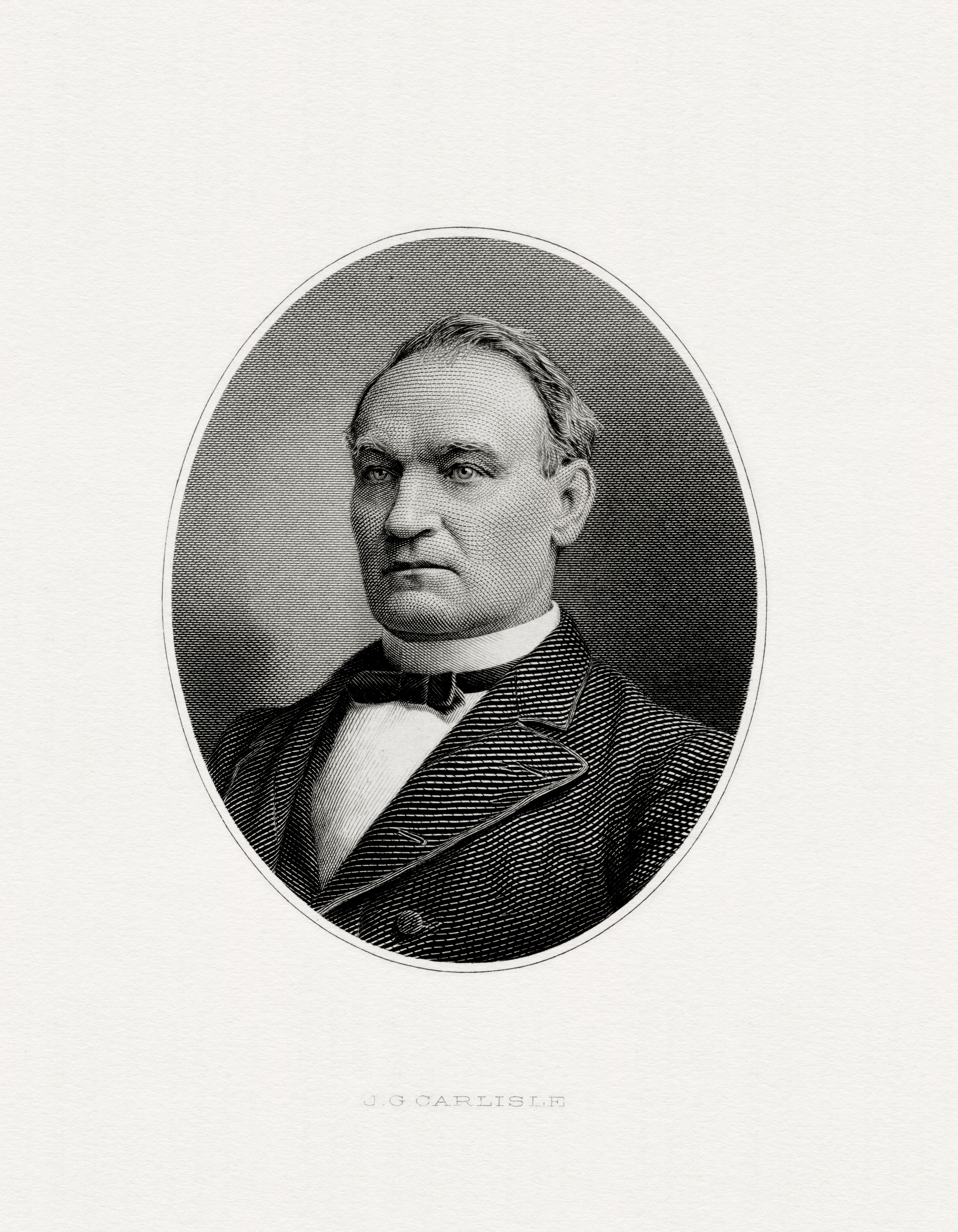 Engraved BEP portrait of U.S. Secretary of the Treasury John G. Carlisle